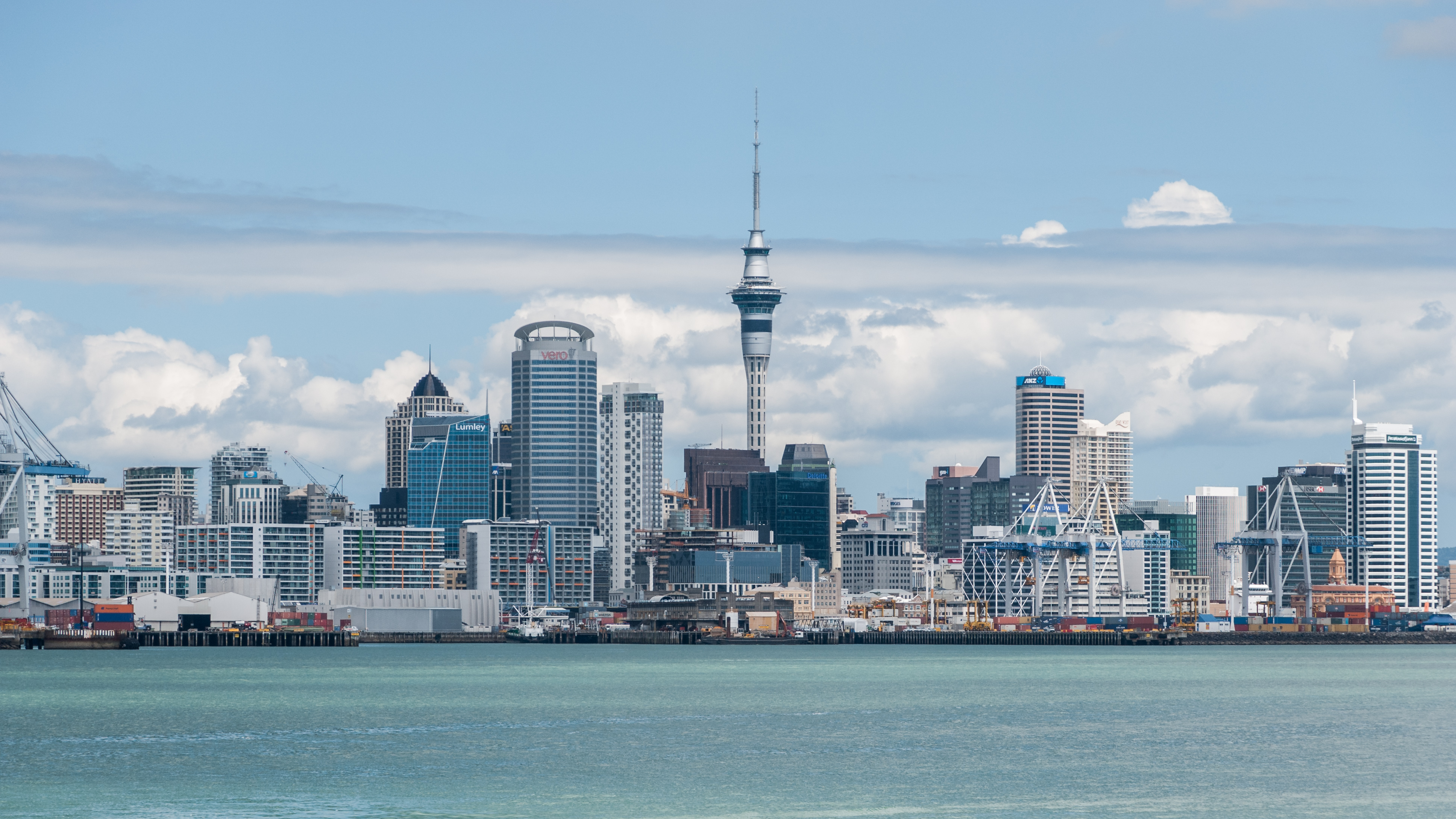 The Skyline of Auckland as seen from Devonport, located at the North Shore